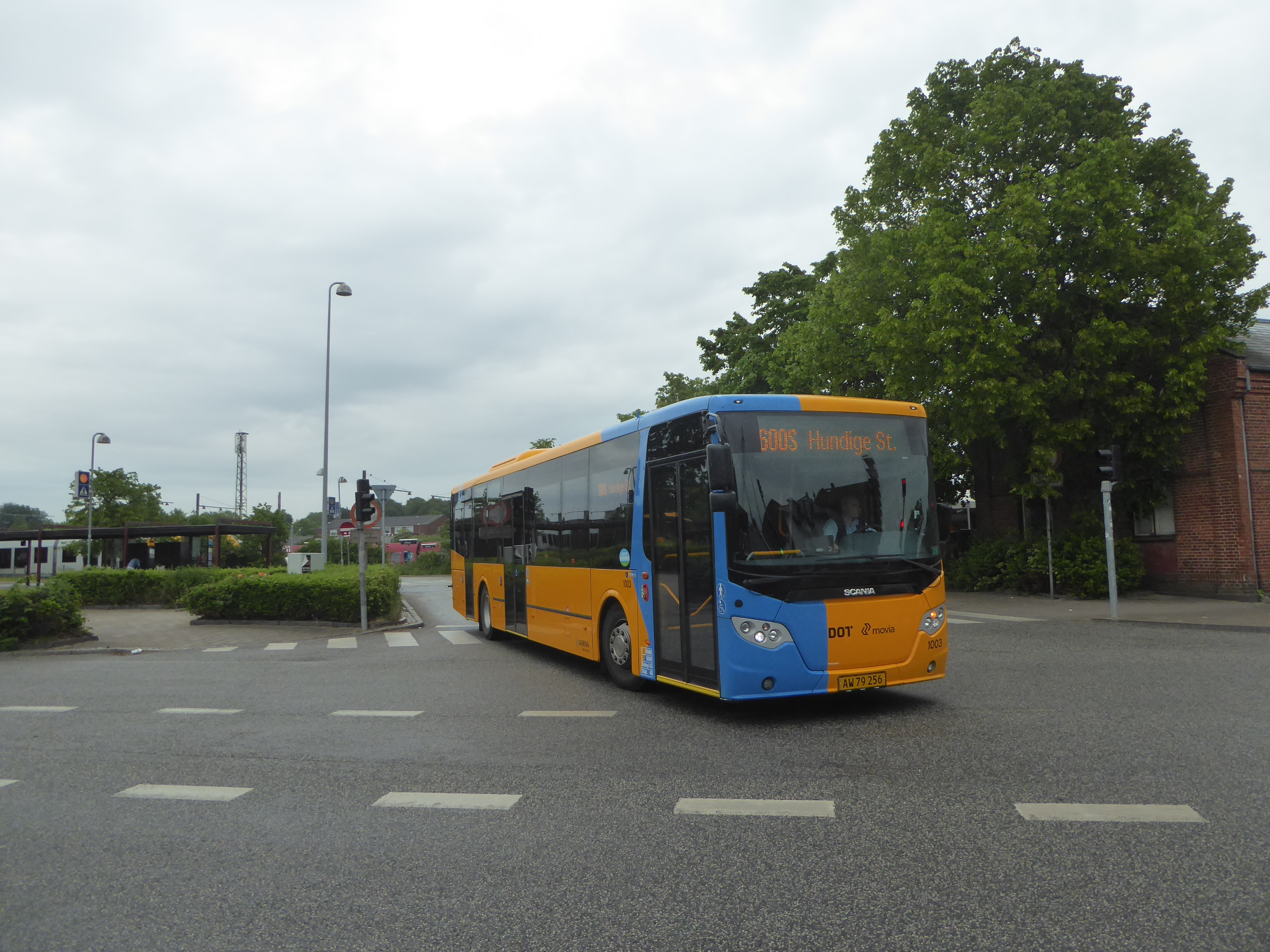 Movia bus line 600S at Hillerød Station in Denmark.